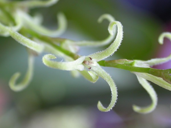 Anathallis